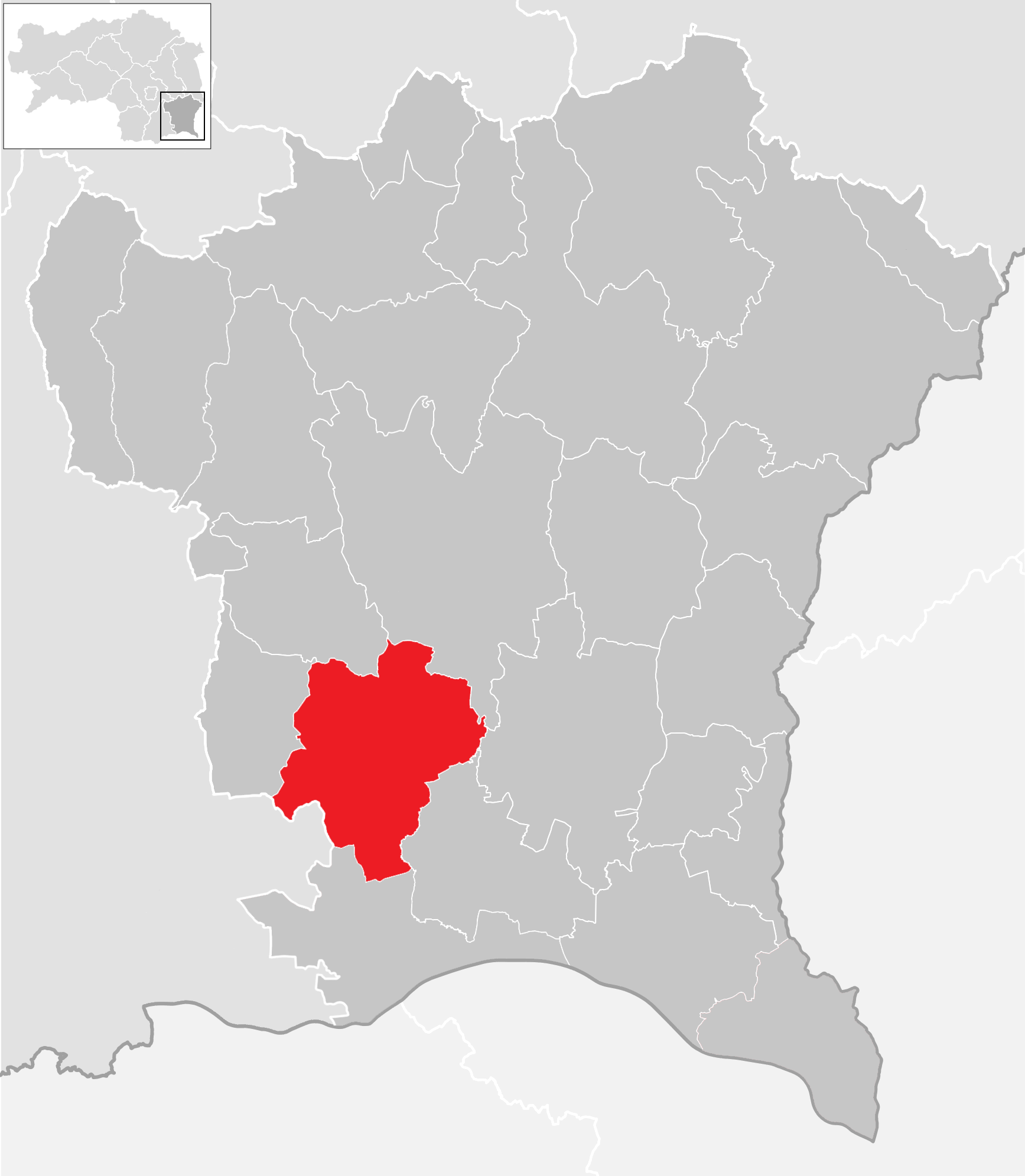 district Südoststeiermark